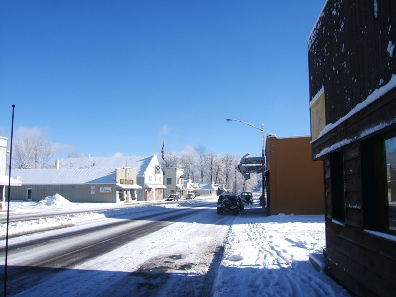 Main Street—Hwy. 36, as it passes through the older section of Chester, in Plumas County, northeastern California.